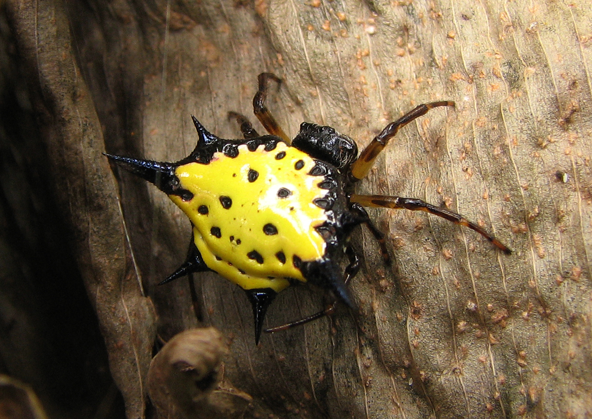 Gasteracantha hasselti (Spiny Orb-Weaver) found at Kalasa, Karnataka, India.